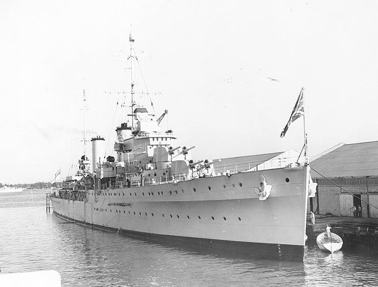 HMS Apollo at Miami, Florida, en:1 February prior to her transfer to the RAN as HMAS Hobart.